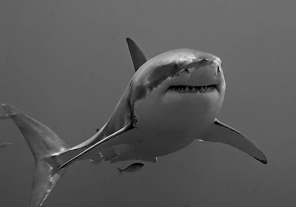 Taken at Isla Guadalupe, Mexico, August 2006. Shot with Nikon D70s in Ikelite housing, in natural light, approx 25fsw. Animal estimated at 11-12 feet in length, age unknown.